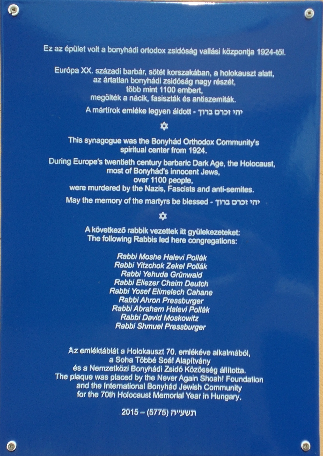 Orthodox synagogue, built in 1924 by Salomon Krausz- Táncsics Street, Bonyhád, Tolna County, Hungary.